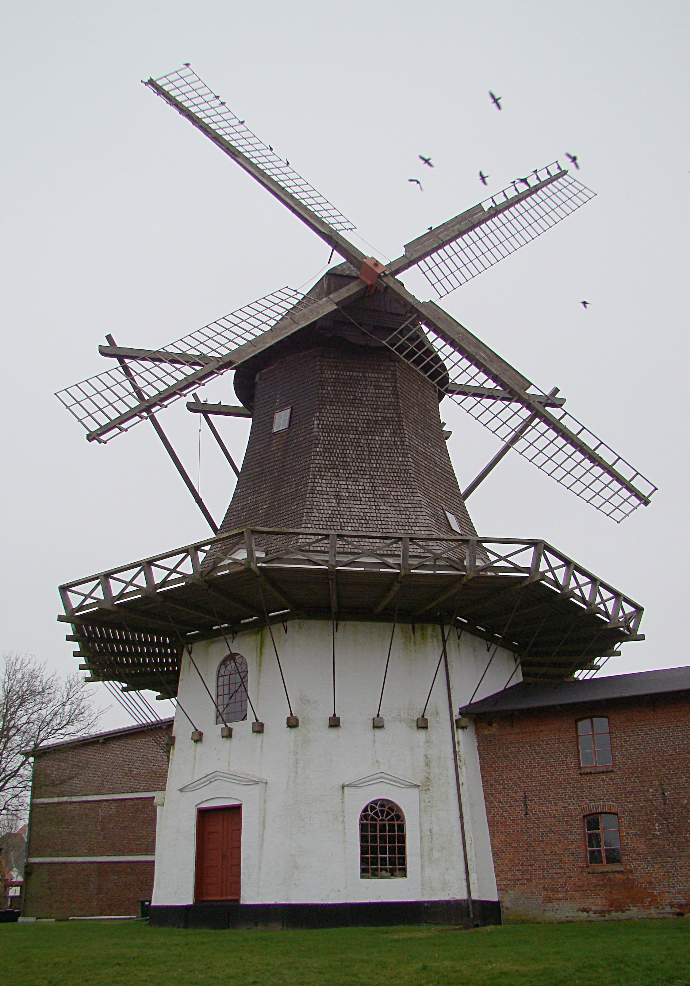 Windmill in Højer, Denmark